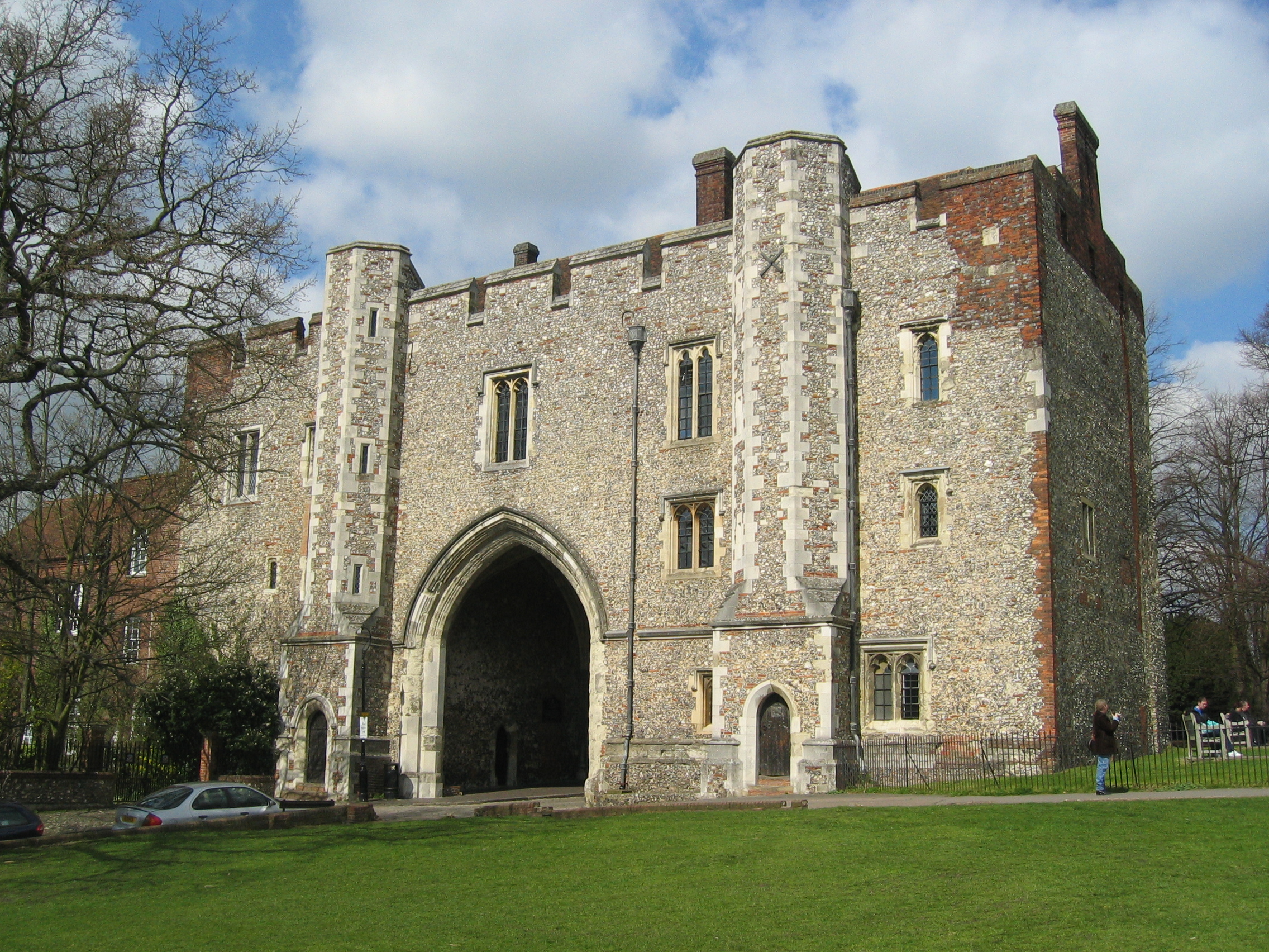 Gateway of former St Albans Abbey, Hertfordshire, UK; Abbey Gateway from the 1360s